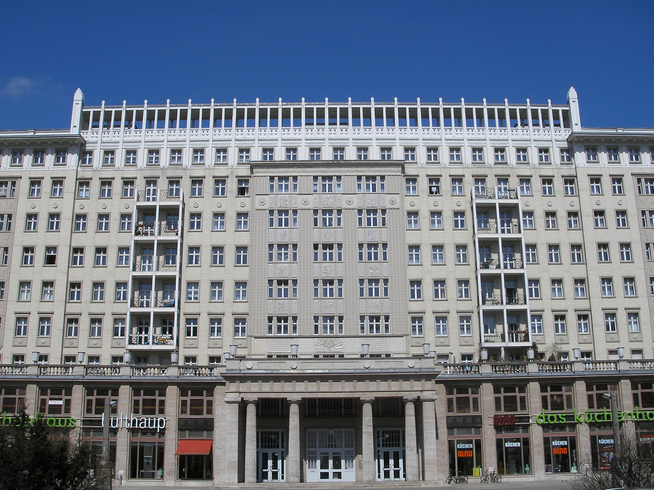 View on Block C North on Karl-Marx-Allee in Berlin. Architect Prof. Richard Paulick. Constructed in 1952.